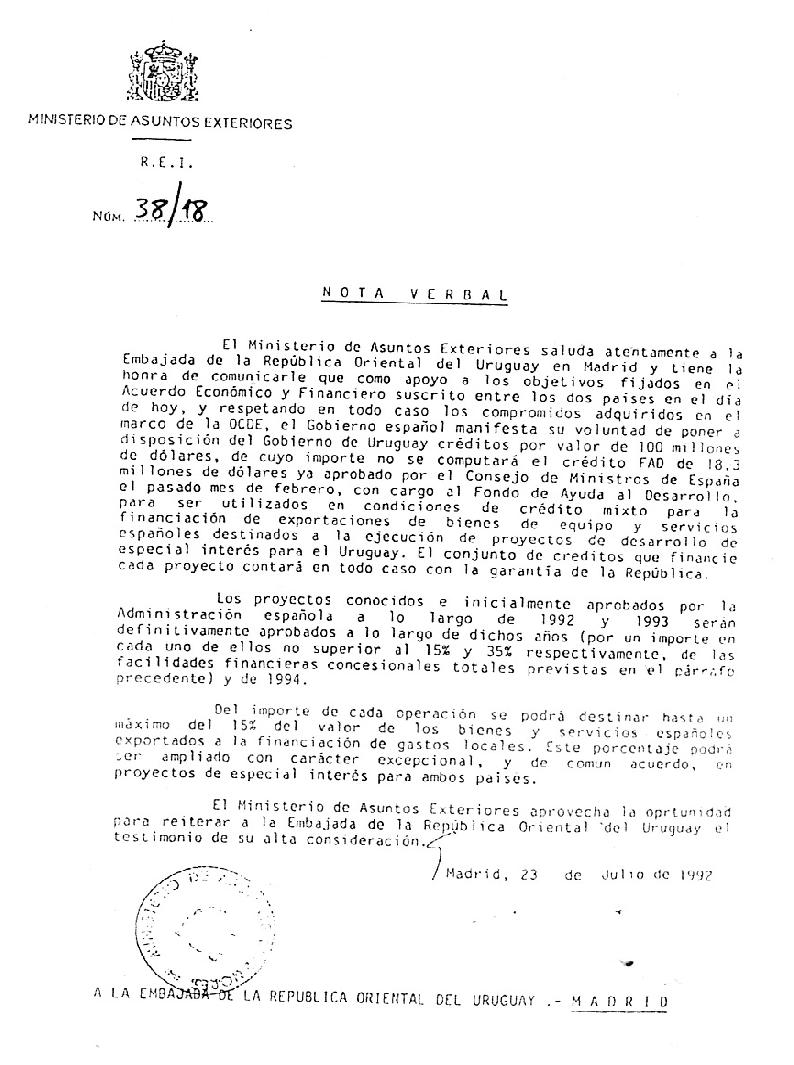 Documento Publico del Ministerio de Asuntos Exteriores y de Cooperación de España